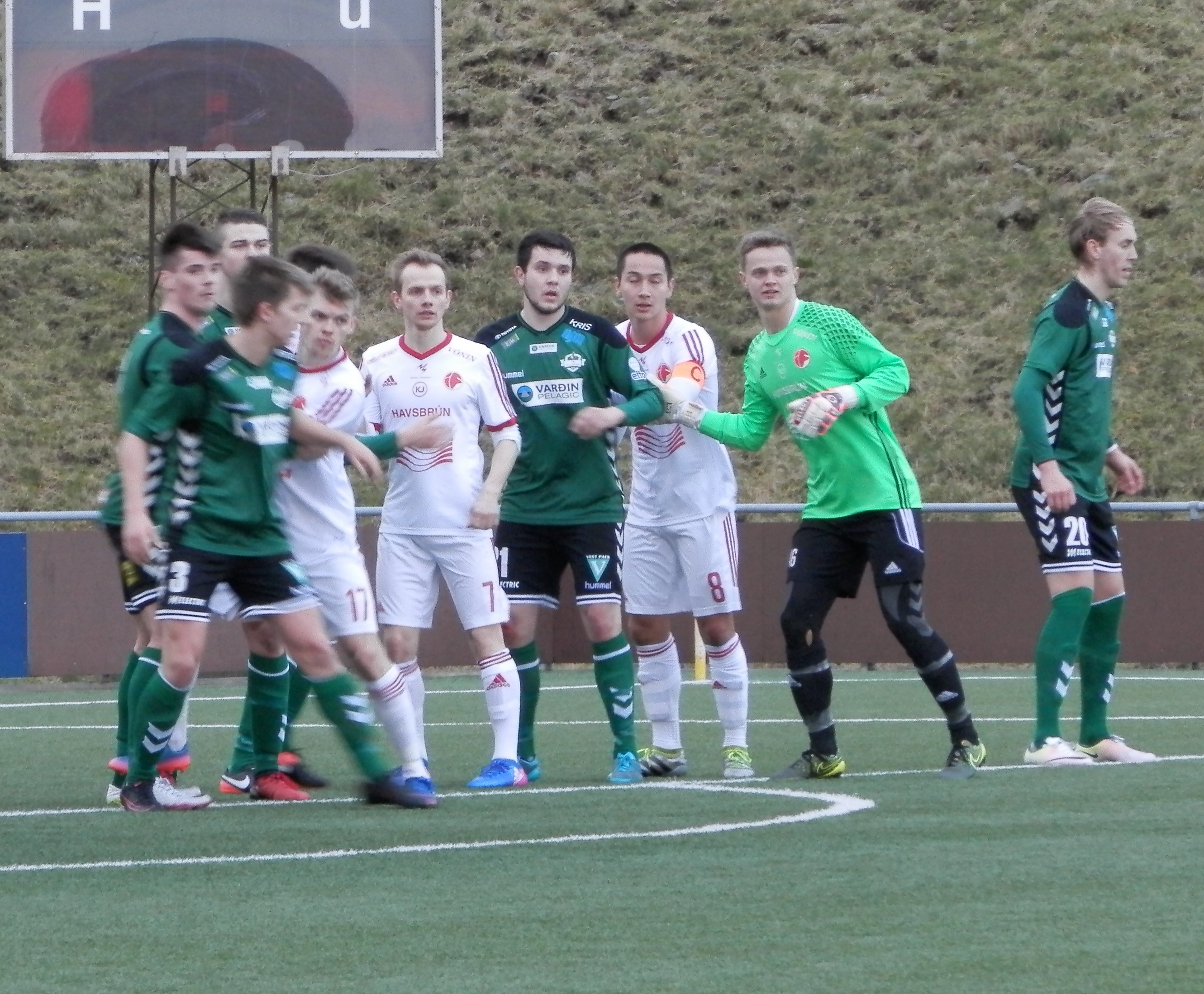 In December 2016 it was decided that the three football clubs of the island Suðuroy would merge into one club. The merger will not be complete until 2018, but they will play as one club in 2017 with the name of all three clubs: TB/FC Suðuroy/Royn. Amongst the fans they are simply called Suðringar (ringar) which means people from Suðuroy. They played their first match in the top tier on 12 March 2017 against ÍF Fuglafjørður on their home field at Við Stórá Stadium inTrongisvágur. They won the match 2-1.